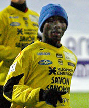 Sierraleonese Attacking Midfielder Medo aka Mohamed Kamara of KuPS. League cup game KuPS-FC Haka (ended 2-1, KuPS went on to win the League Cup). Medo has since been playing with HJK Helsinki (from 2007).